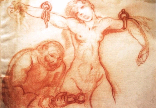 Image of S/M sexuality